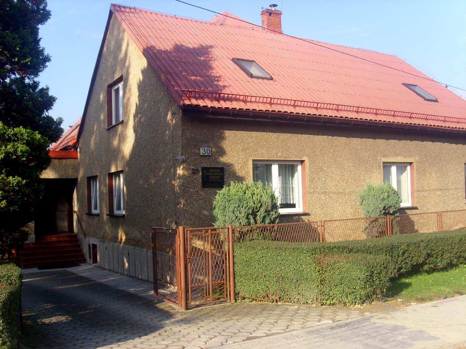 Protestant church in Jastrzębie-Zdrój